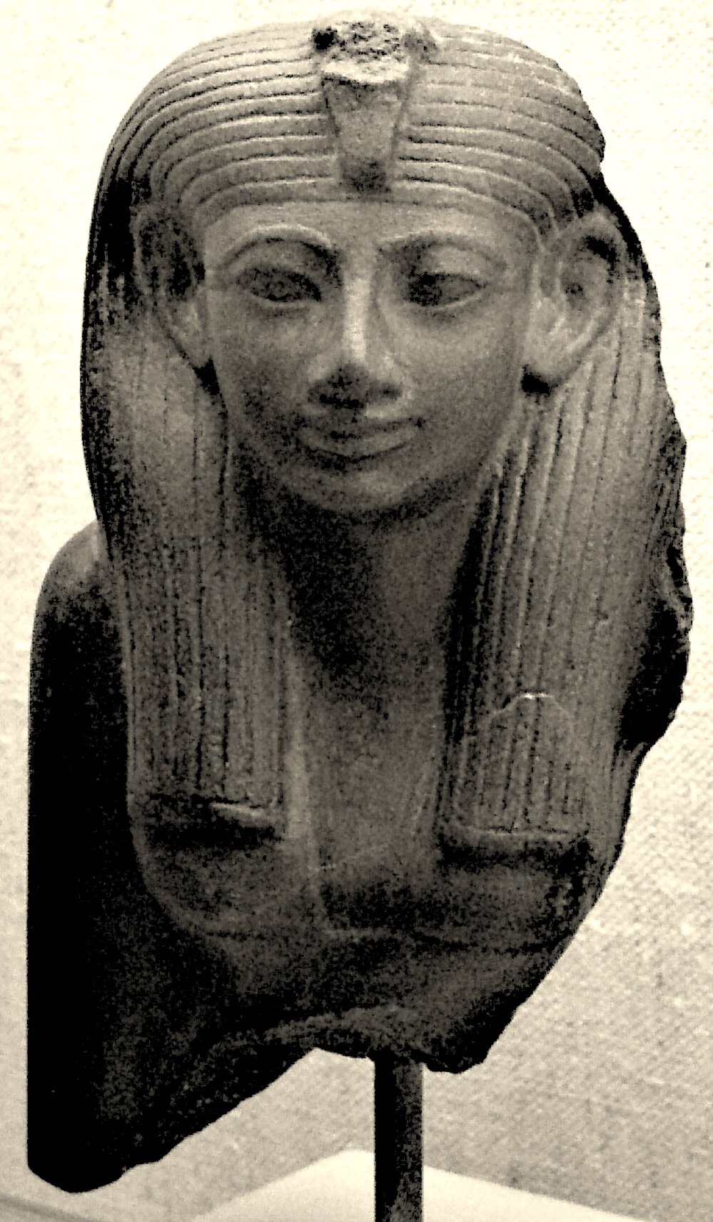 Fragmentary statue of Hatshepsut. Made of quartz diorite, dating to the 18th dynasty, circa 1498-1483 B.C. Now residing in the Museum of Fine Arts, Boston.